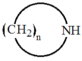 Azacycloalkane formule